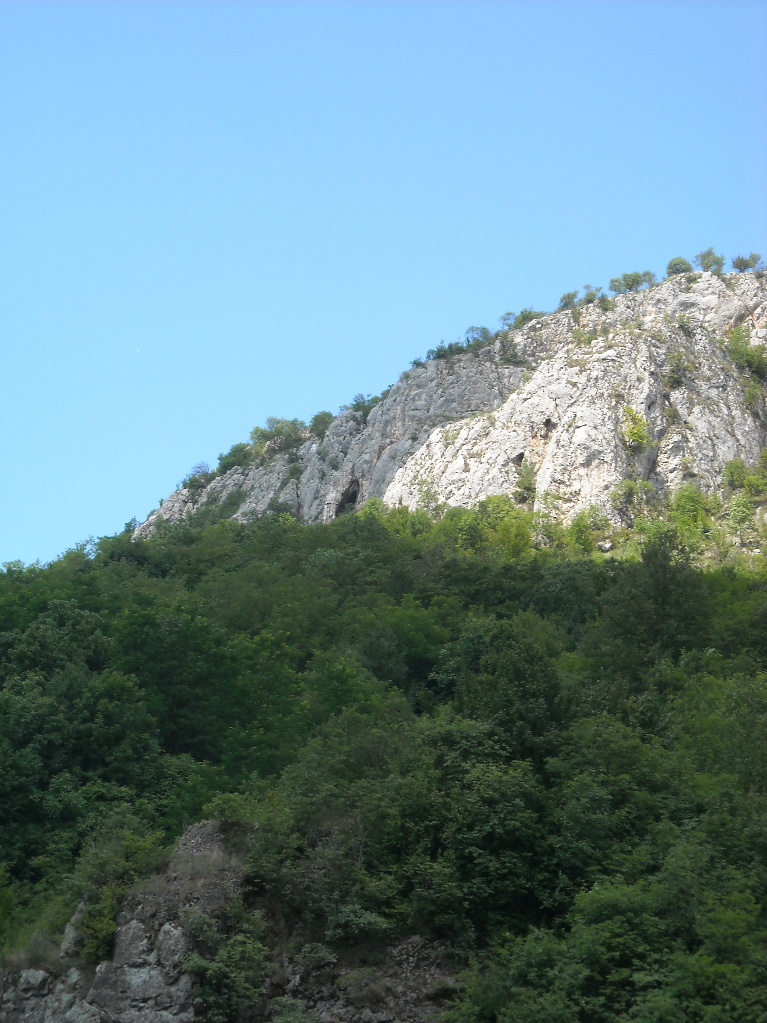 the southern side of the Măgura Feredeului near Crăciunești